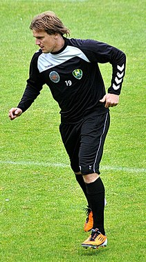 Dmitri Bulykin by ADO Den Haag.